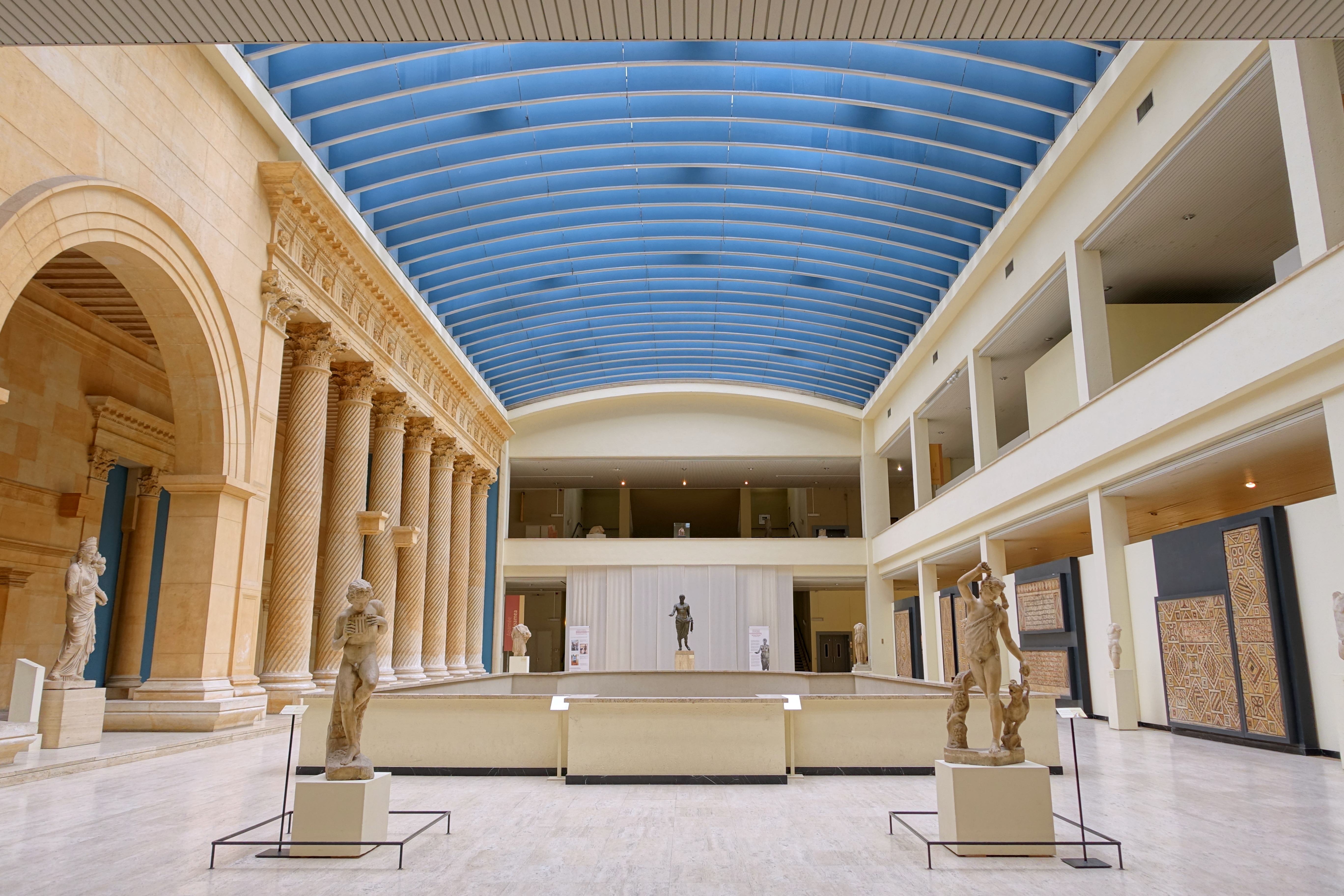 Antiquity collection in the Cinquantenaire Museum - Brussels, Belgium.